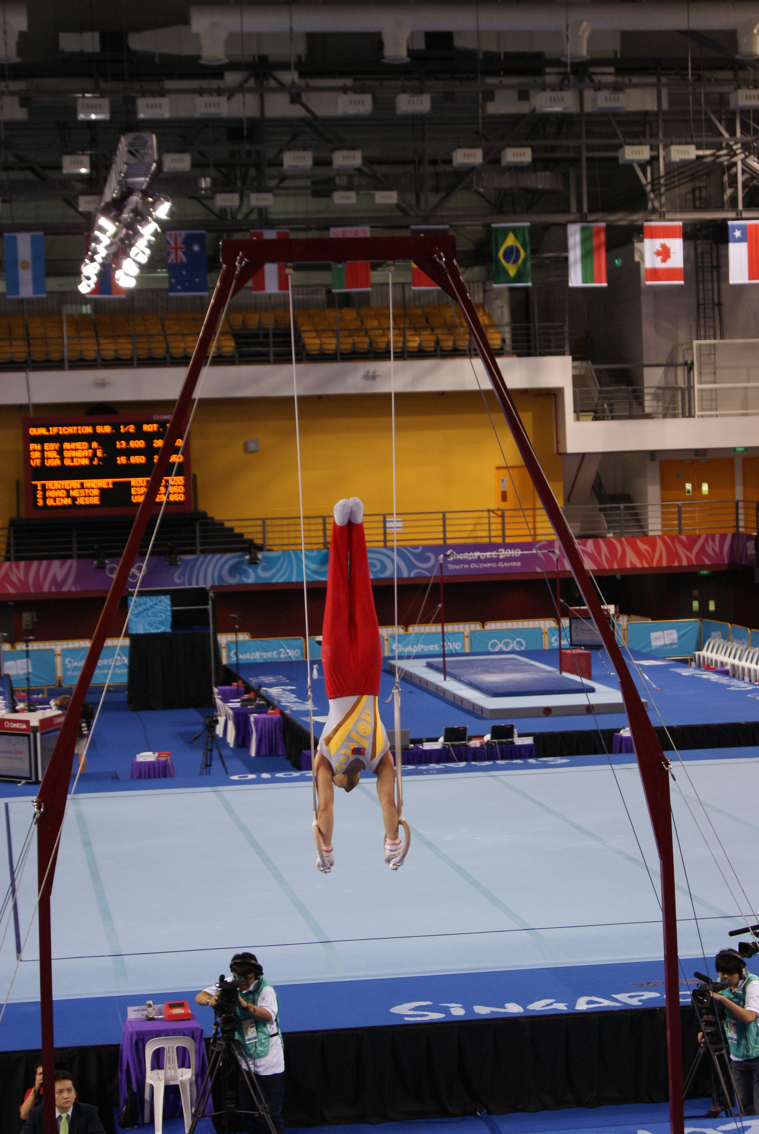 Mongolian gymnast Erdenebold Ganbatyn performing on the rings during Men's Qualification – Subdivision 1 of the artistic gymnastics competition at the 2010 Summer Youth Olympics at Bishan Sports Hall, Singapore.